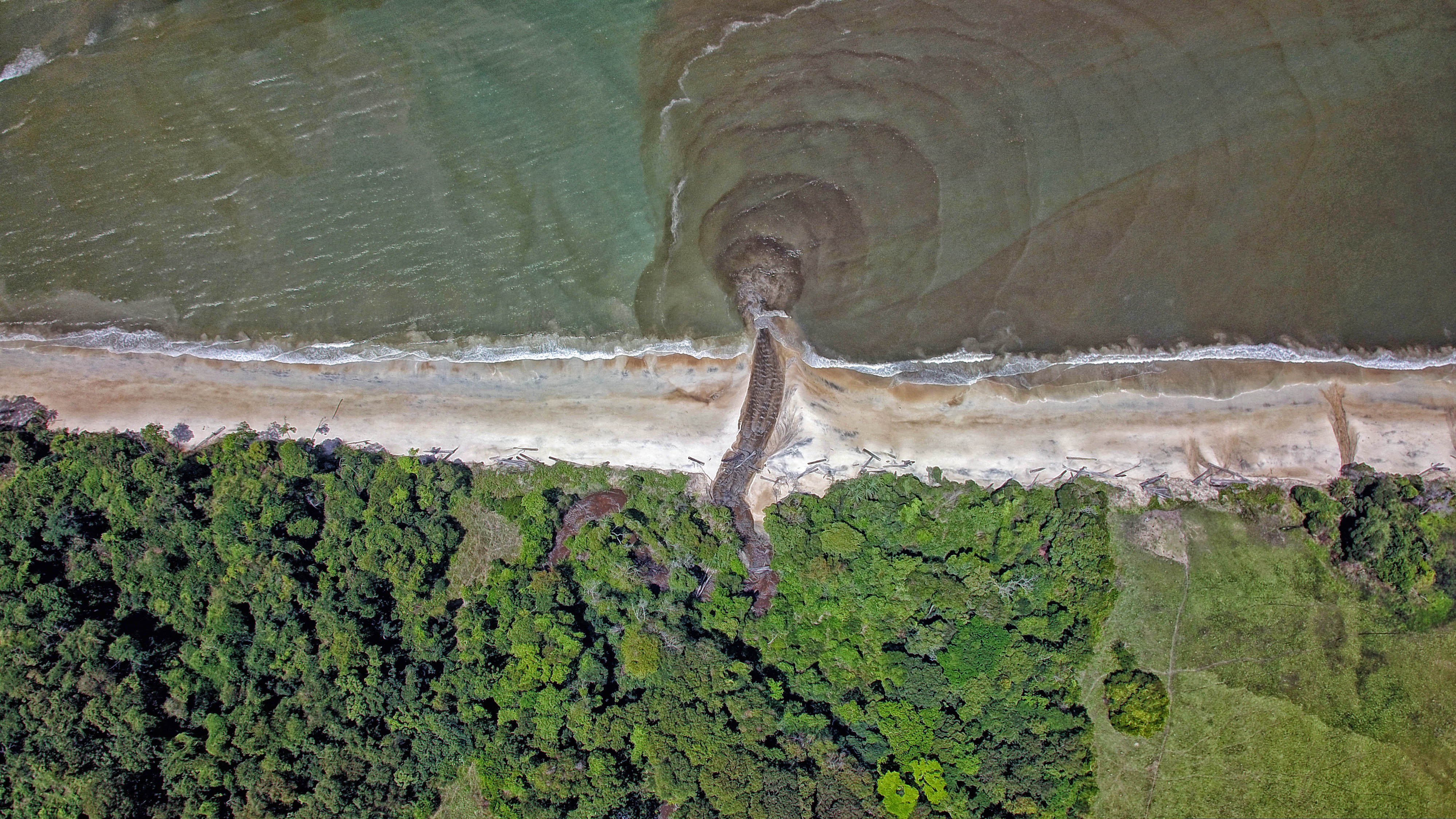 River of Nyonié flowing at sea after the rain.